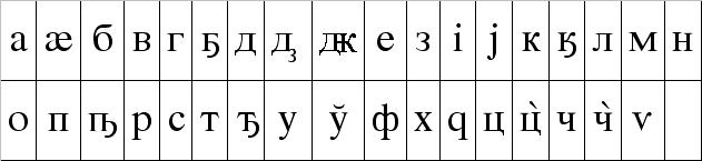 Osetian cyrillic alphabet of XIX